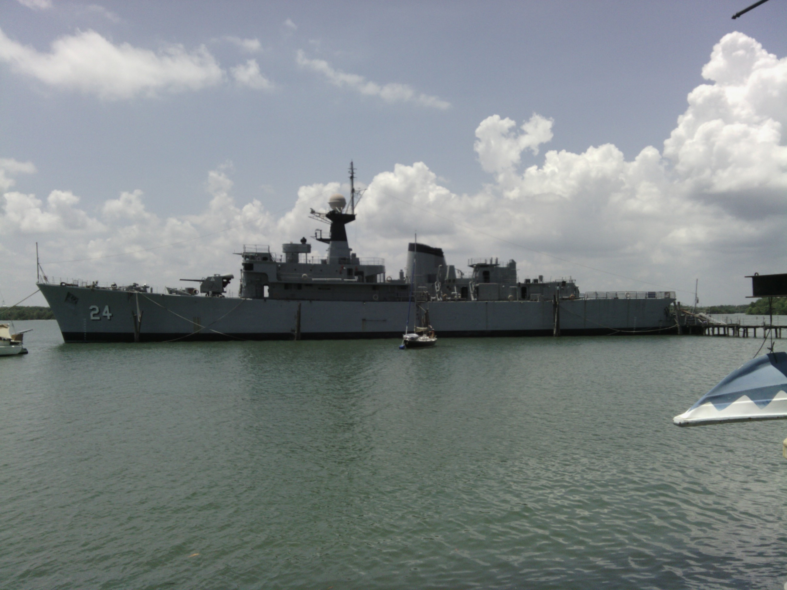 KD Rahmat preserve as a museum ship